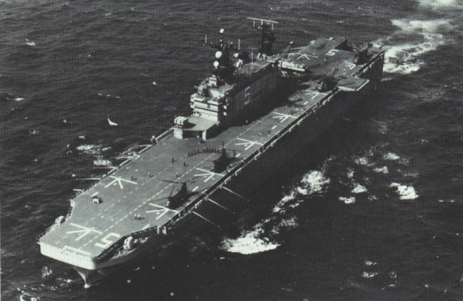 The U.S. Navy amphibious assault ship USS Peleliu (LHA-5) underway off Australia, in 1982. Peleliu participated in exercise "Freedom Pennant ’82", a joint exercise held in the southeast Indian Ocean at the Australian Army’s Lancelin gunfire range 200 km north of Perth in Western Australia. "Freedom Pennant" involved more than 5,000 sailors and marines from the Peleliu, USS Cleveland (LPD-7), and USS Peoria (LST-1183).